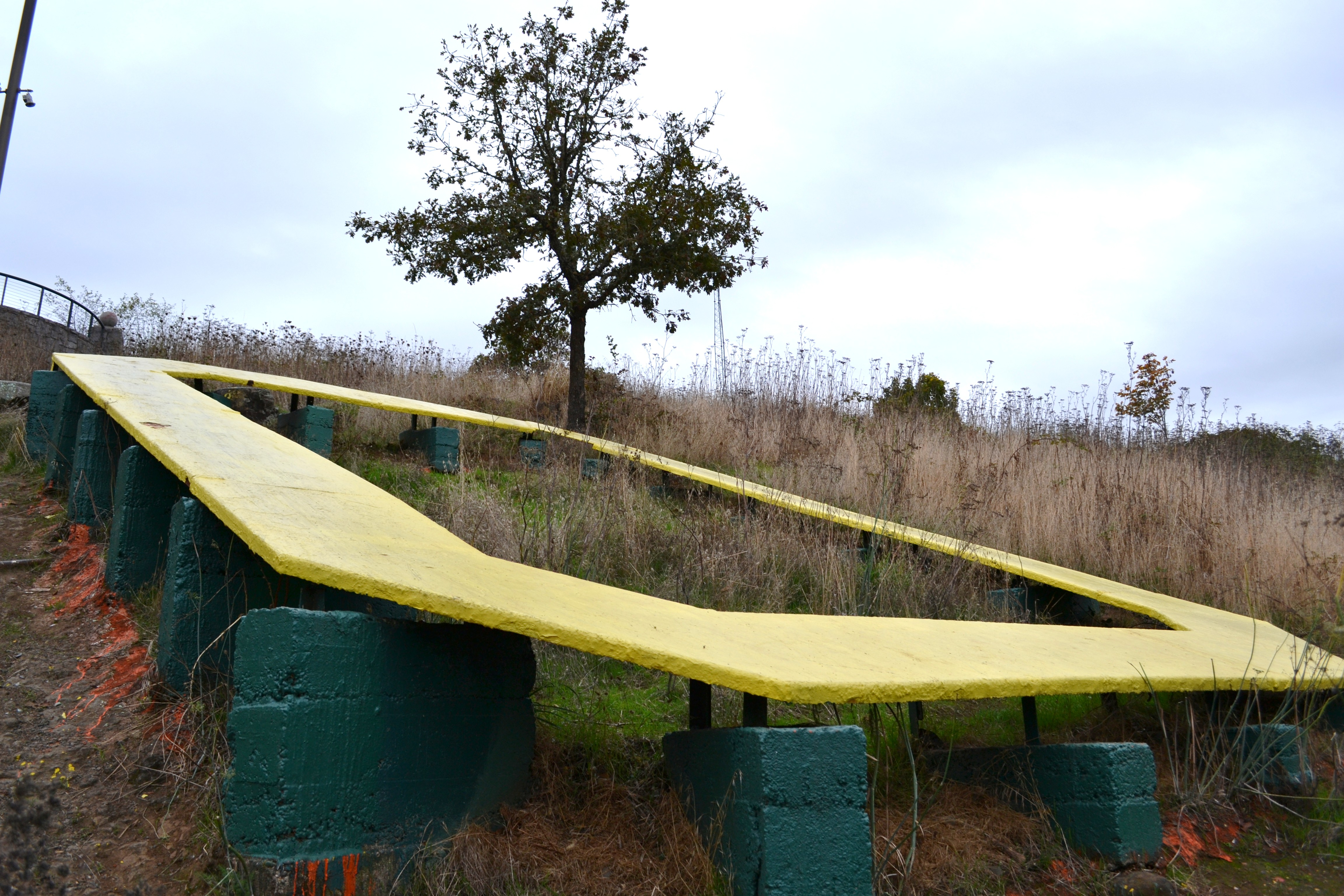 Big O Skinners Butte (Eugene, Oregon)